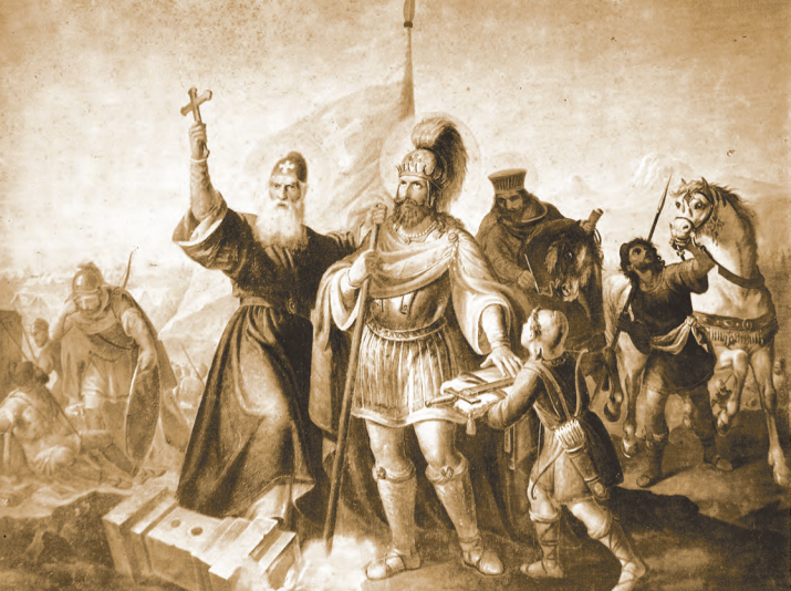 In this illustration, Saint Ghevond Yerets encourages the Armenian troops and generals to defend their faith and homeland. Vartan Mamikonian, the military commander of the Armenian army, comes forward, vowing to lay down his life for his motherland, and young Vahan Mamikonian (Vartan’s nephew) hands him the Aryan Sword. Yeghishe, the secretary of the sparapet, kept all the events in mind and, afterwards, wrote, “The History of Vartan and the Armenian War against the Tyranny of the Persians.”